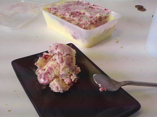 Homemade Raspberry ripple icecream